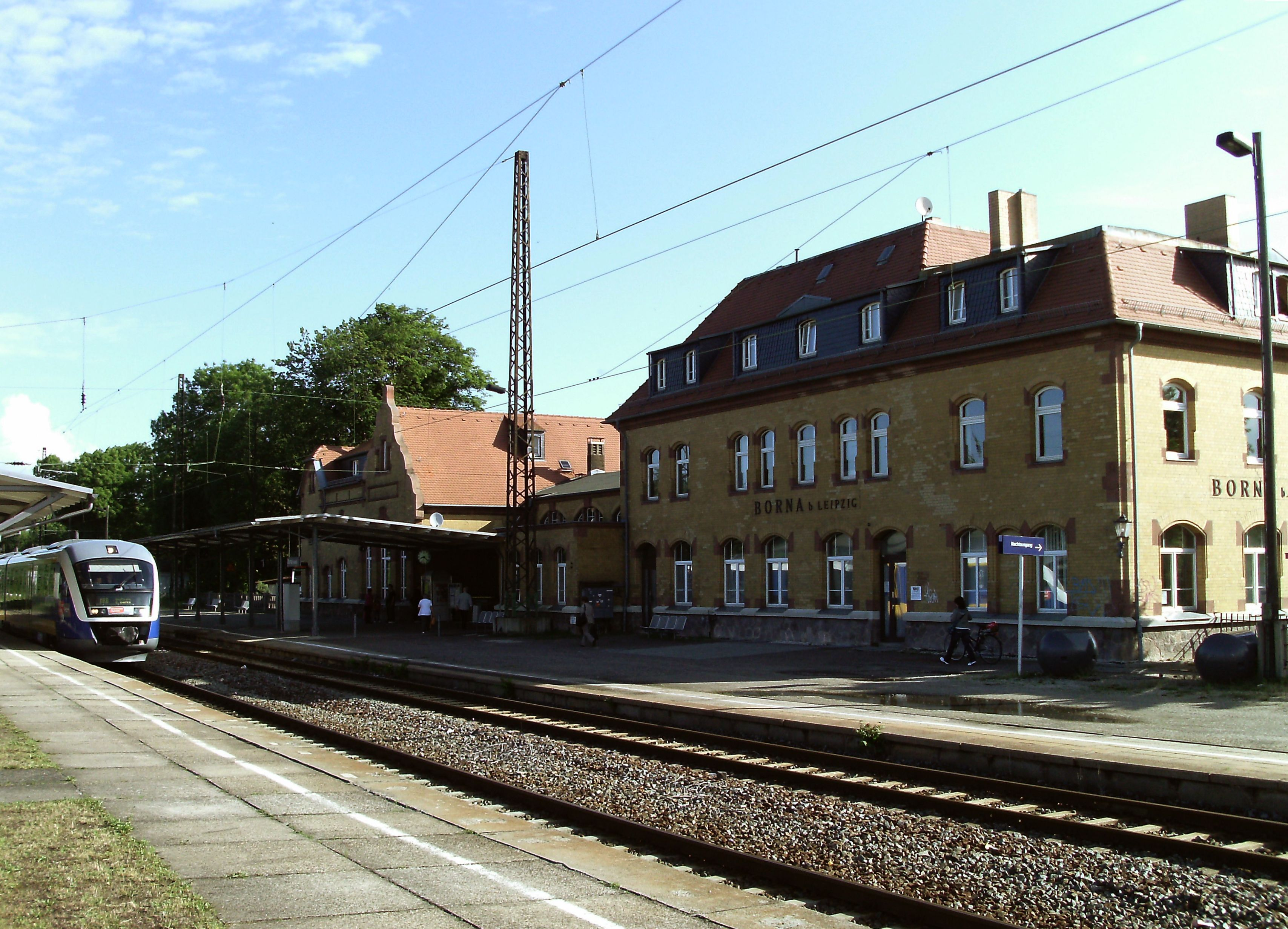 Borna train station (Leipzig district, Saxony)